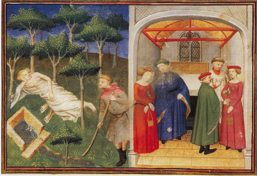 Page from Decameron